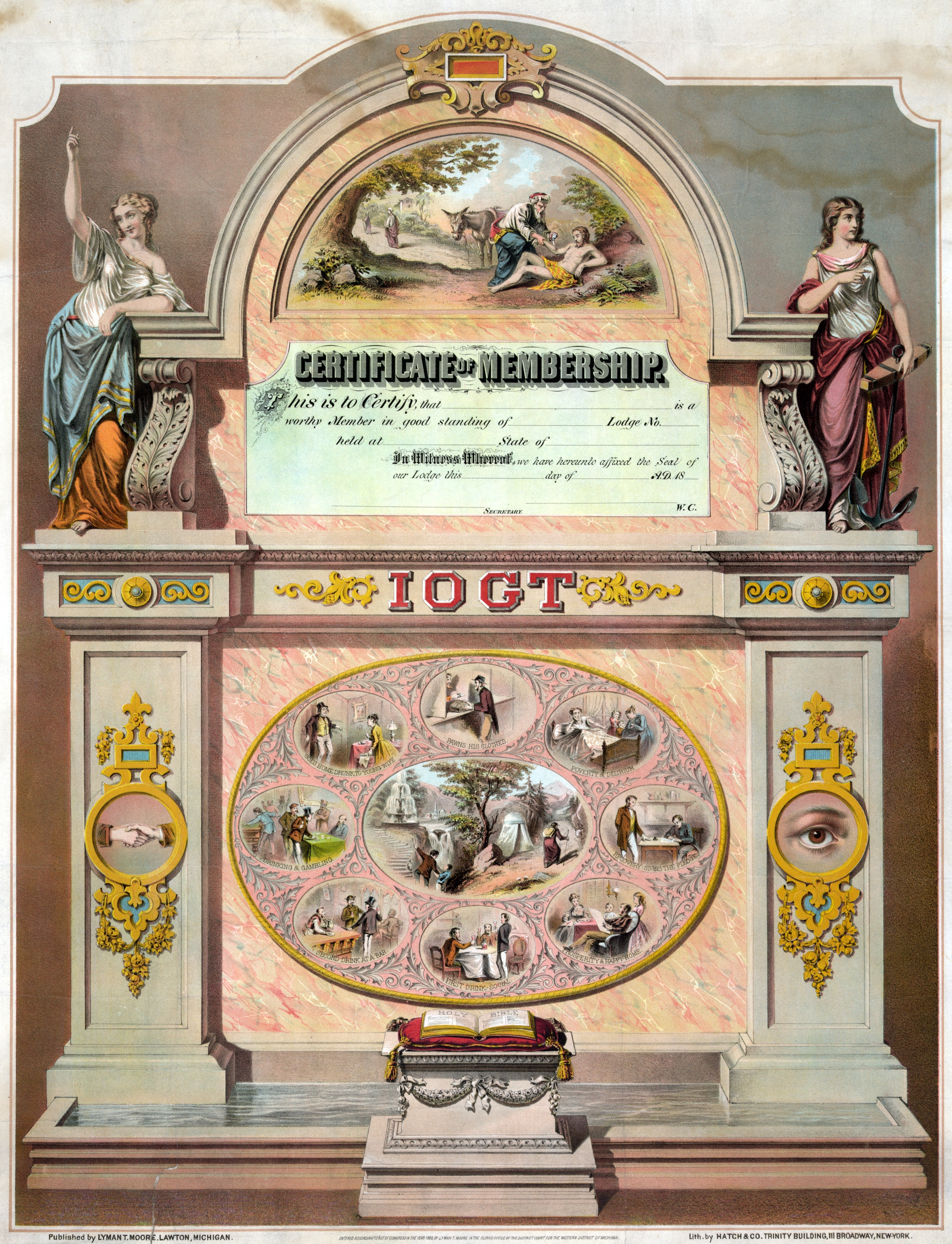 IOGT (International Organisation of Good Templars) Certificate of Membership. Published by Lyman T. Moore, Lawton, Michigan. Entered according to Act of Congress in the year 1868, by Lyman T. Moore in the Clerks Office of the District Court for the Western District of Michigan. Lith. by Hatch & Co., Trinity Building, 111 Broadway, New York. Vignette (top): The parable of the Good Samaritan. Vignettes (clockwise from bottom): First drink - social. Second drink at a bar. Drinking & gambling. Goes home drunk to young wife. Pawns his clothes. Poverty & delirium. Recovery - signs the pledge. Prosperity & happy home. Certificate of Membership: This is to Certify, that — is a worthy Member in good standing of — Lodge N° — held at — State of —. In Witness Whereof, we have hereunto affixed the Seal of our Lodge this — day of — A.D. 18 —. Secretary. W.C.